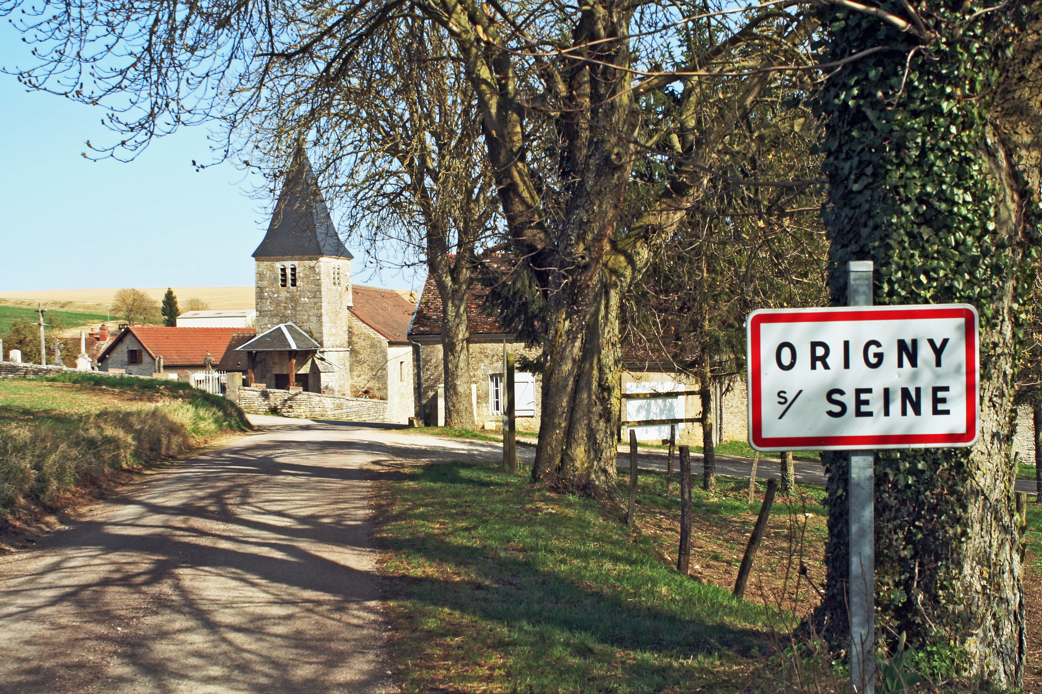 Entry of the village Origny(-sur-Seine) seen since the road to St-Marc-sur-Seine